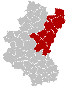 Map of Bastogne District in province of Luxembourg, Belgium.Colors changed by me, based on work from Gebruiker:LennartBolks/kaartenhoekje also in PD.